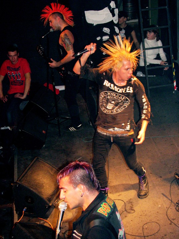 The Casualties, New York punk band, during "Under Attack. European Tour 2007" gig in Polish city Gdynia.